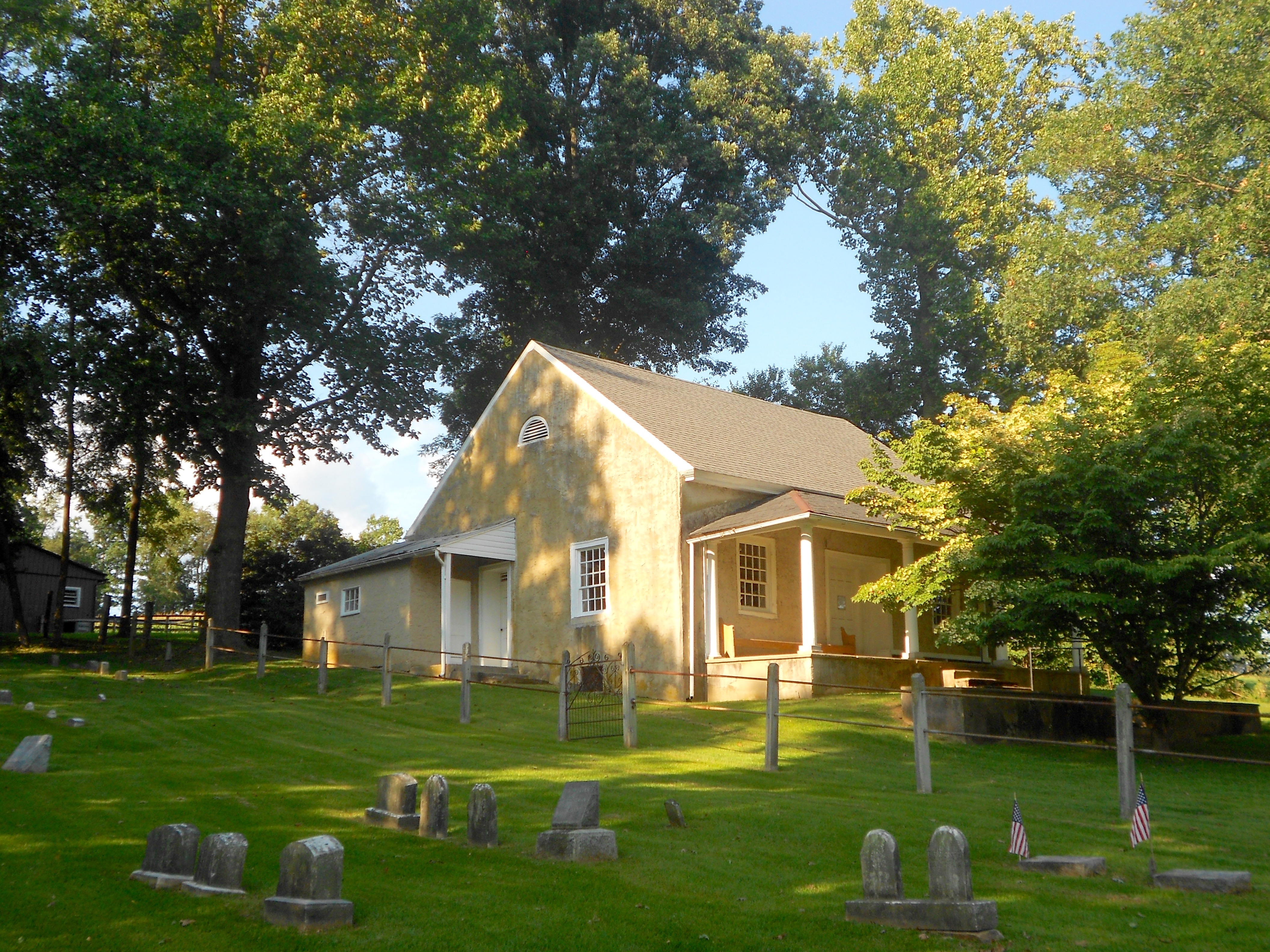 Bart Friends Meeting House in Salisbury Township, Lancaster County, Pennsylvania on Quaker Church Road. This is about a mile east of Bart Township. Built 1825